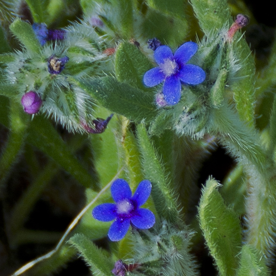 Hormuzakia aggregata, Ness Ziona Kurkar Hills, Israel